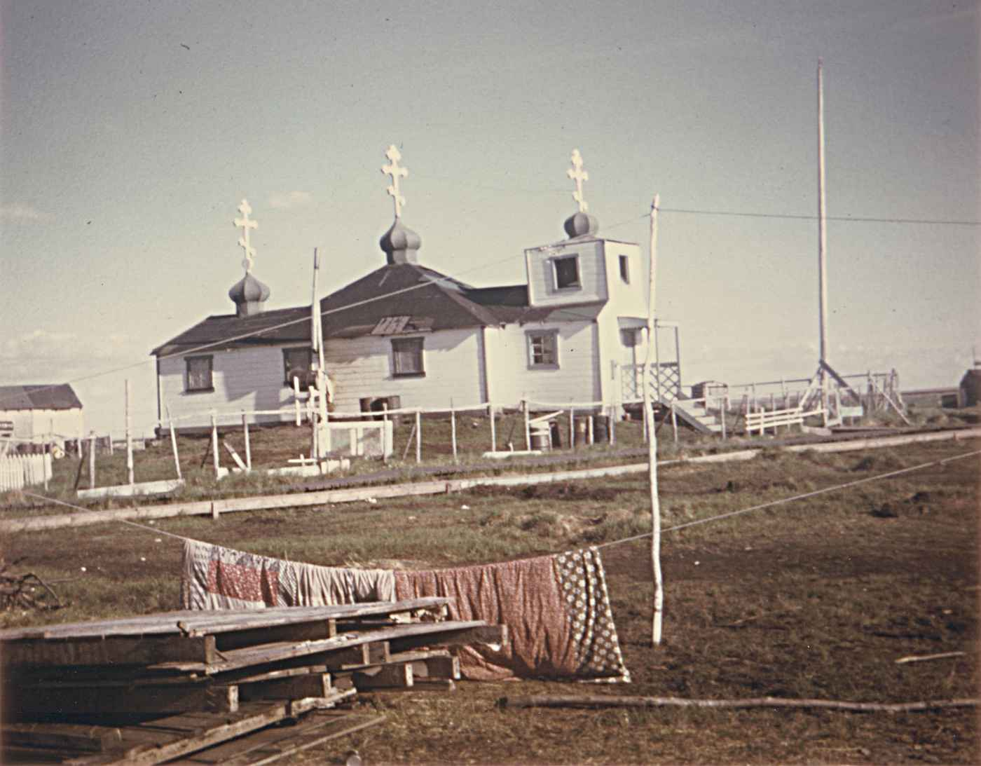 Image title: Russian orthodox church in Kasigluk Image from Public domain images website